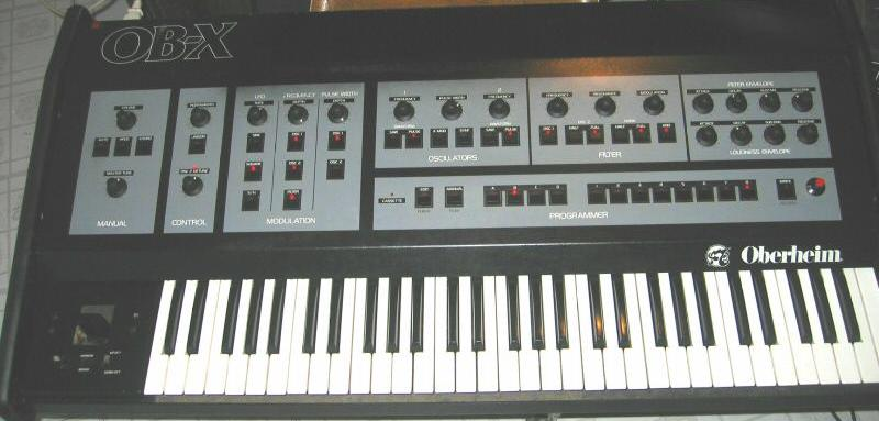 Oberheim OBX syntesizer. (original: Cropped my original photo a bit. Looks cleaner now.)